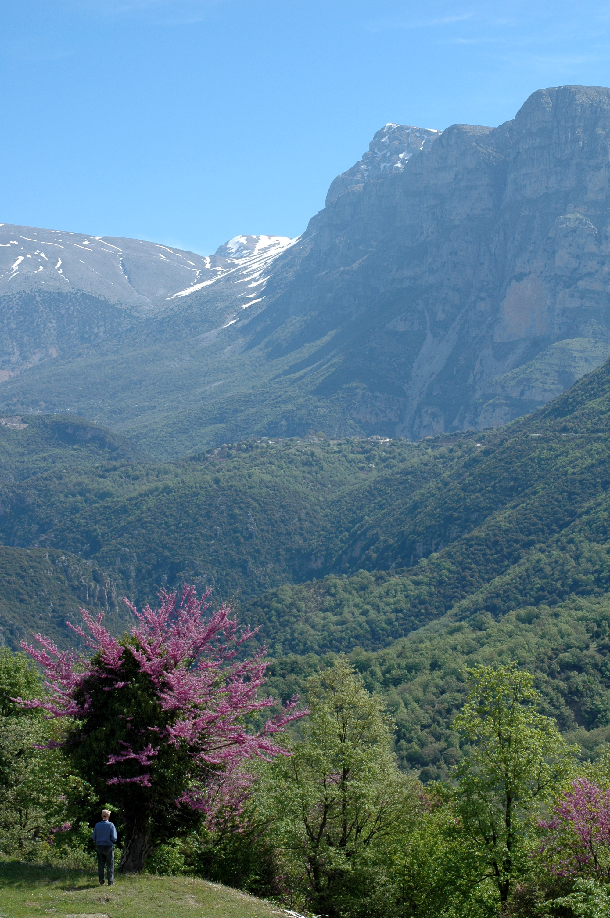 In the center of the picture is Vikos village. Behind that is the exit of the Vikos Gorge. The peak in the background is Astraka. The village Papingo can also bee seen, left.